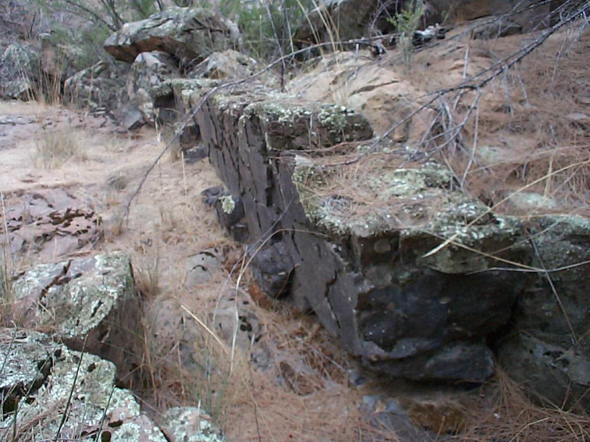 Teschenite dyke from Red Rocks Gorge ACT Australia